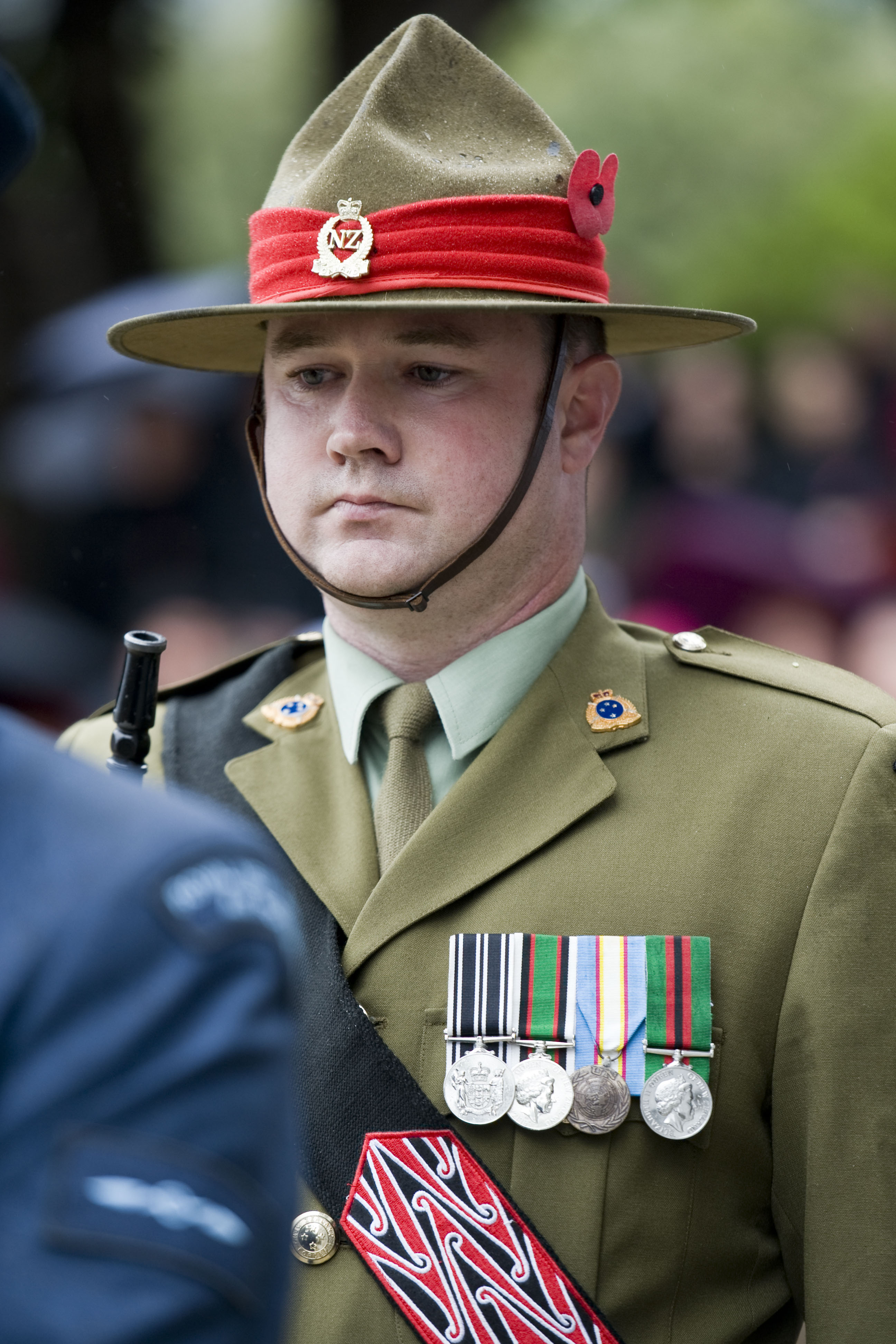 ANZAC Day service at the National War Memorial Wellington. A Tri-Service vigil watches over the Tomb of the Unknown Warrior 20110425_WN_S1015650_0011.jpg Crown Copyright 2011, NZ Defence Force – Some Rights Reserved.